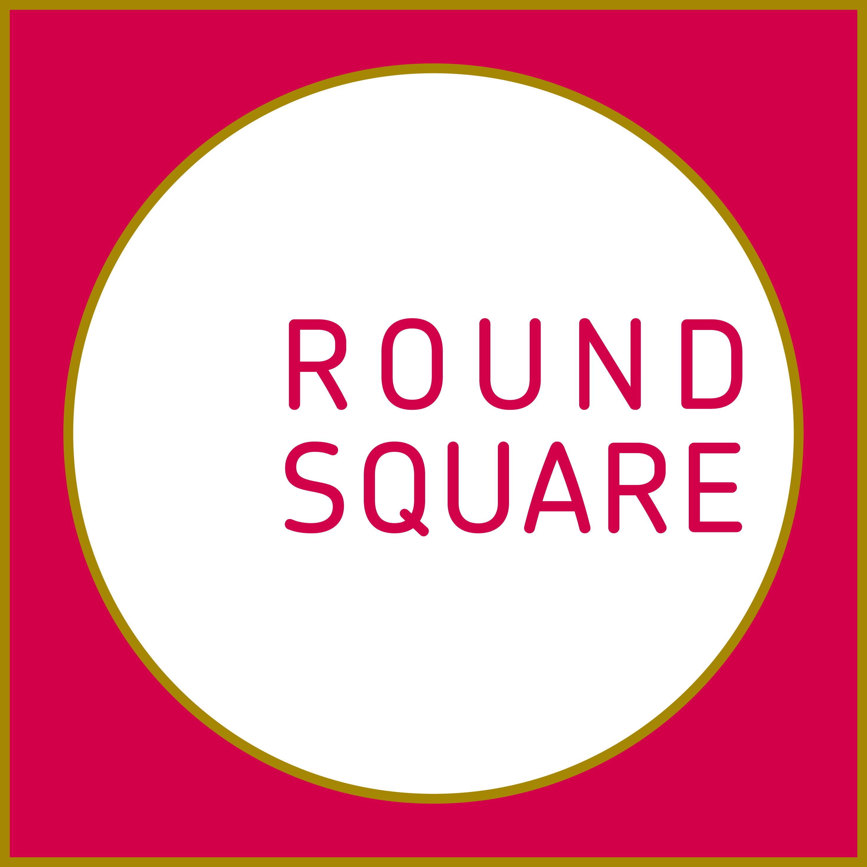 Round Square Logo